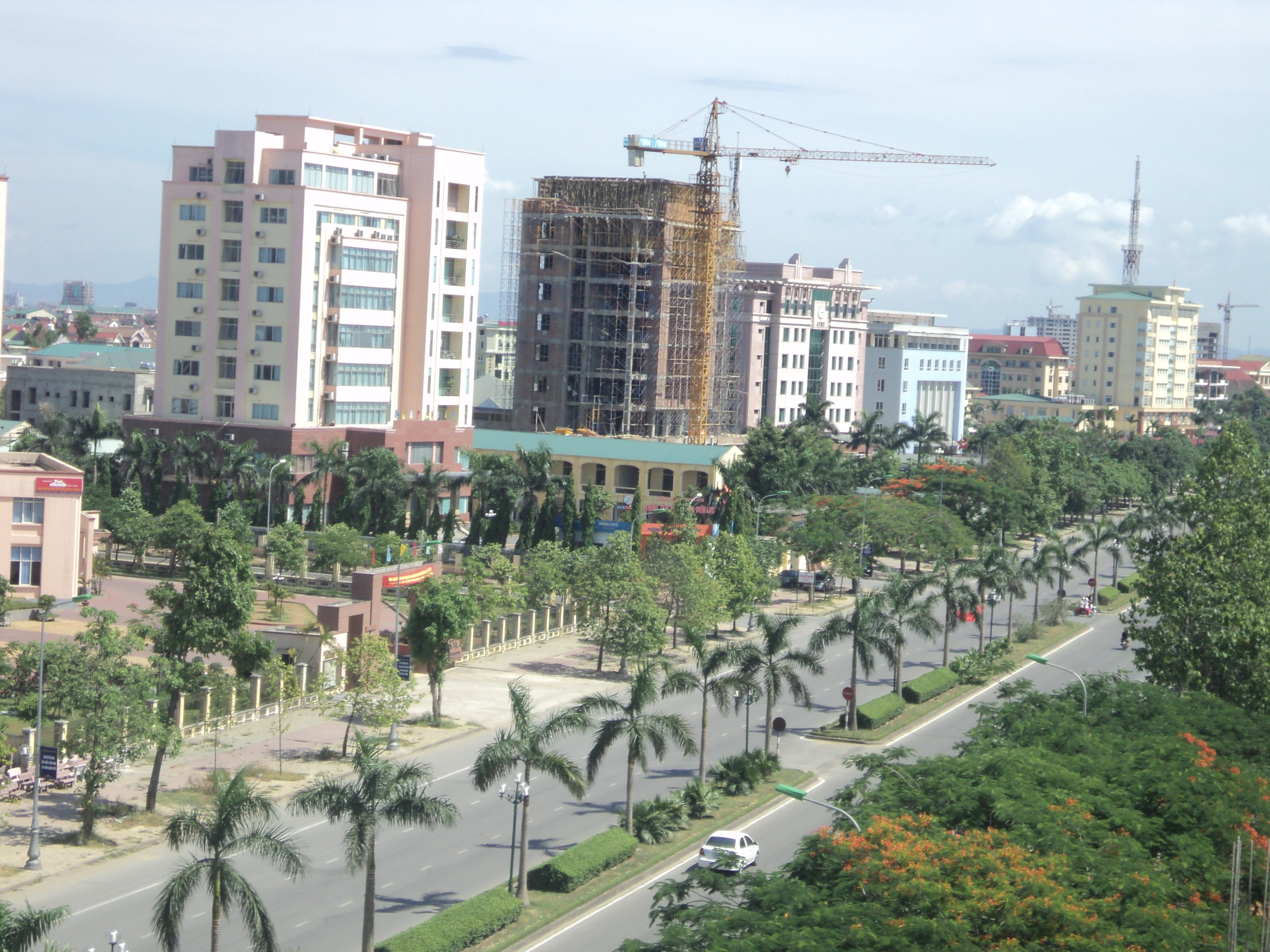 Lenin Avenue in February 2010 in Vinh city, Nghe An Province, North Central Vietnam